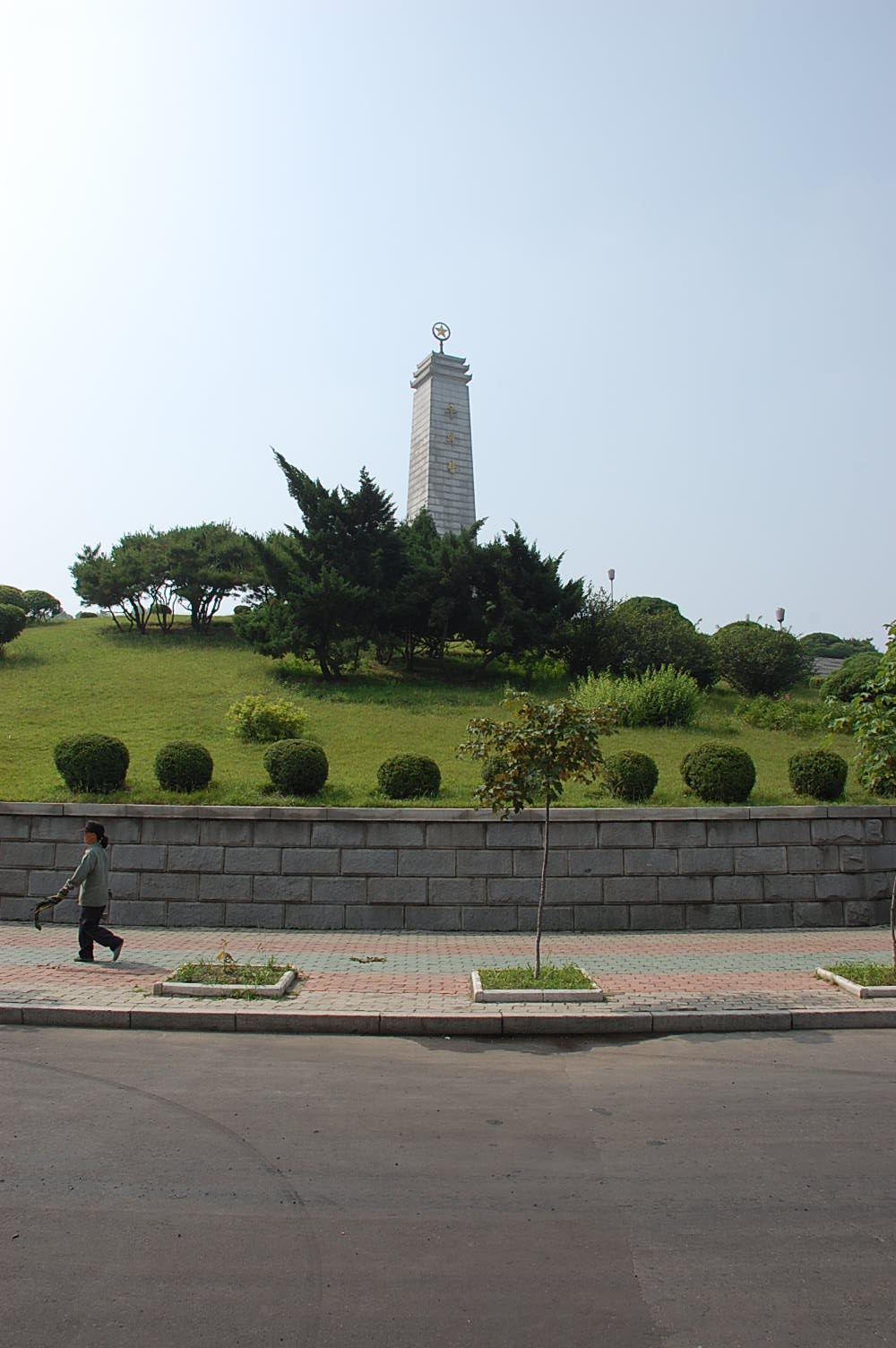 Trip to North Korea in June, 2008